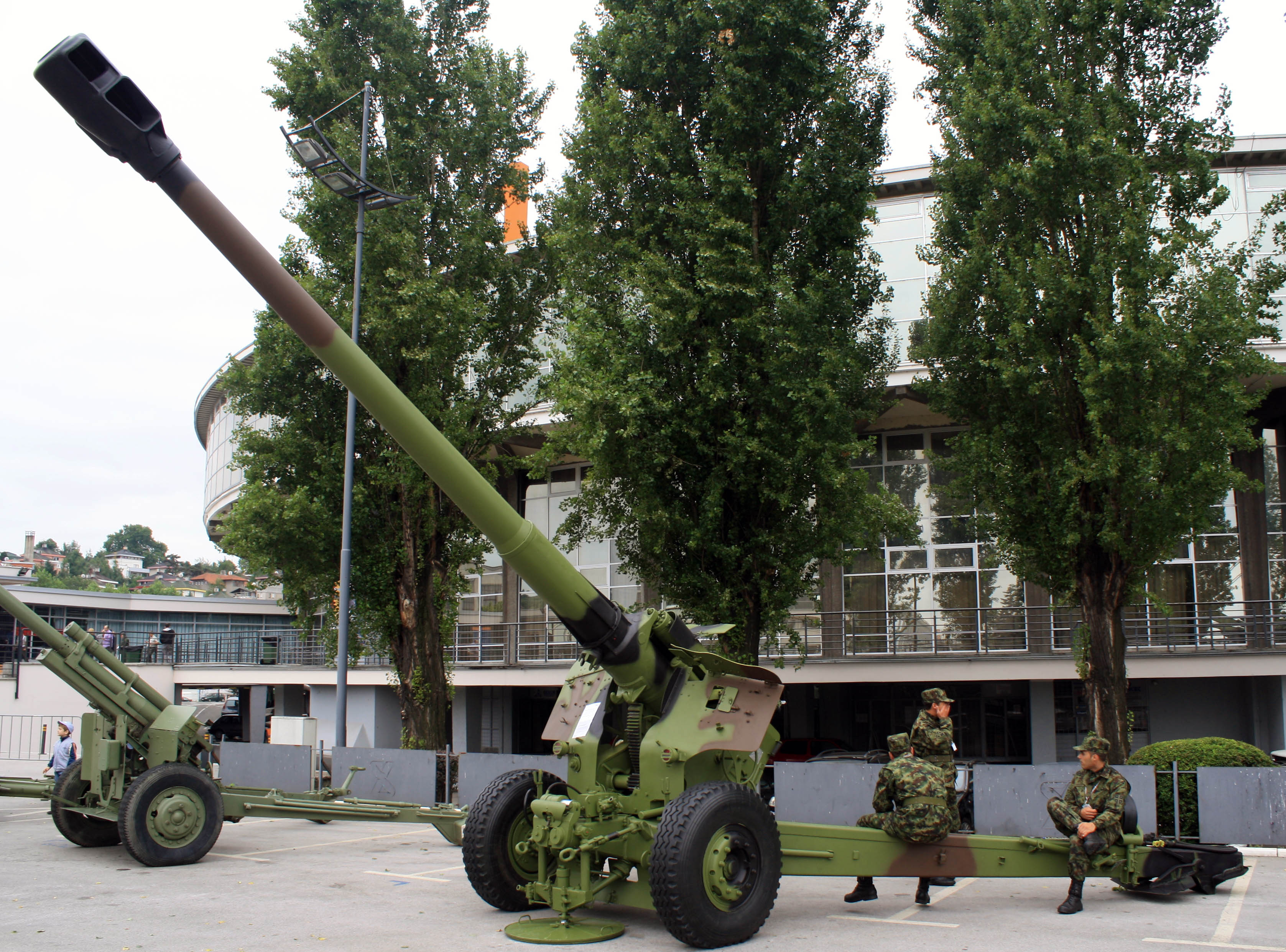 М-84 Nora-A 152mm howitzer of Serbian Army on display at "Partner 2011" military fair.